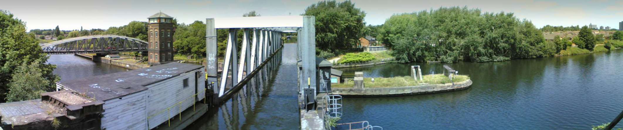 Picture taken by Tom Jeffs, on my mobile phone, stitched together on the computer. Free for anyone to use for whatever they like, no copyright whatsoever.